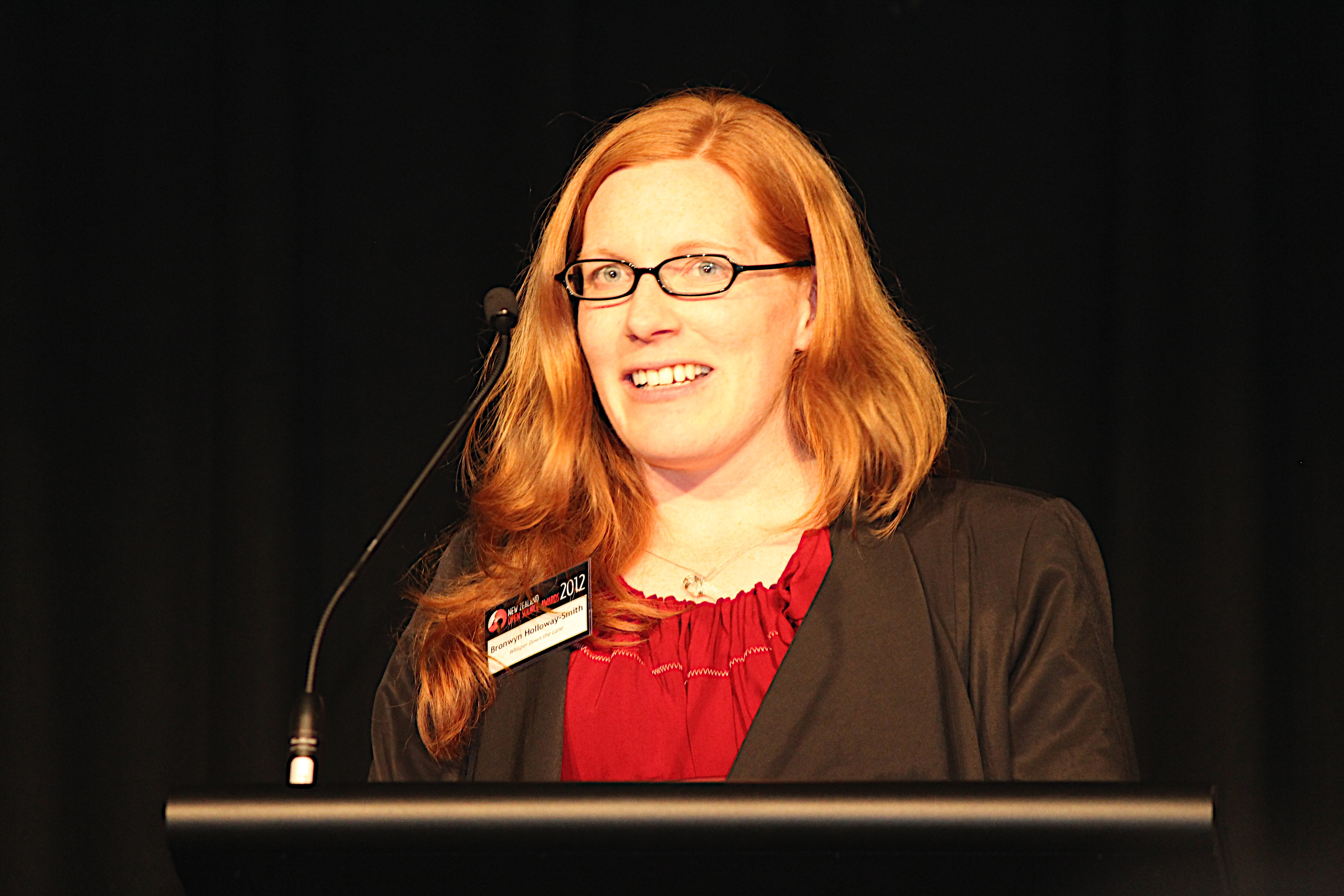 Whisper Down the Lane wins in the category Open Source Use in the Arts. New Zealand Open Source Awards 2012 ceremony in Wellington on 7 November 2012